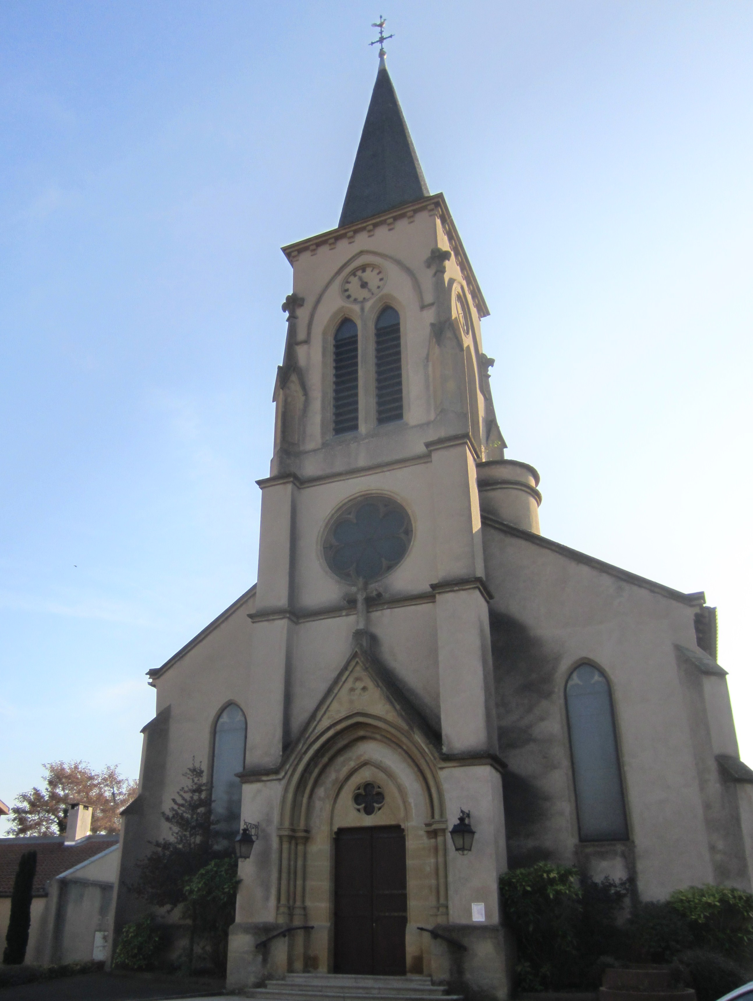 Description église Manom Date21 November 2011Sourcemon appareil photoAuthorAimelaimePermission (Reusing this file) église Manom